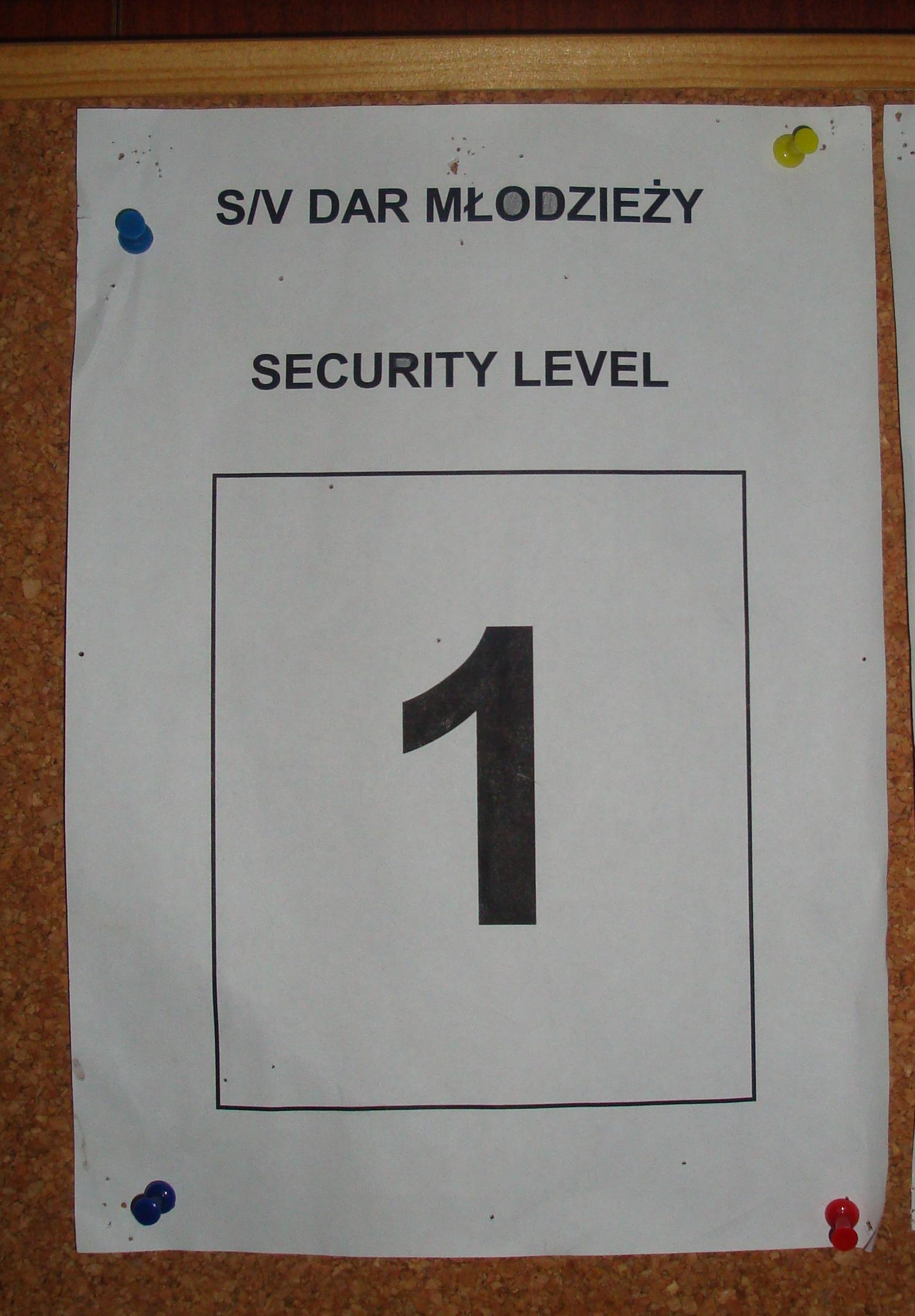 ISPS sign showing security level